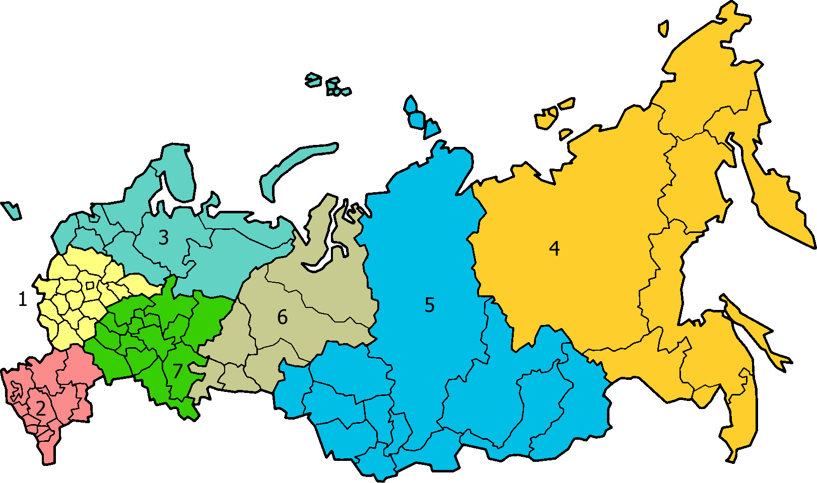 Federal districts of Russia Central Federal District Southern Federal District Northwestern Federal District Far Eastern Federal District Siberian Federal District Urals Federal District Volga Federal District